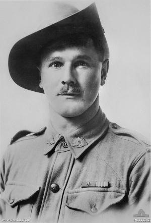 Portrait of Percy Clyde Statton VC MM, an Australian recipients of the Victoria Cross during the First World War.